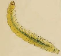 Stainton’s Natural History of the Tineina (1855–1873): Bucculatrix thoracella